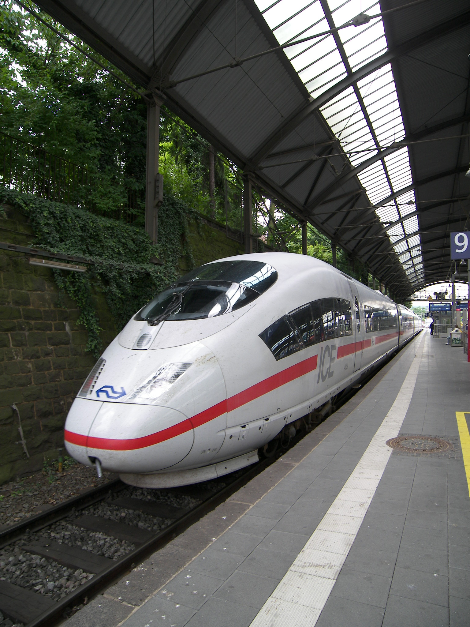 A Dutch ICE 3M train on route from Brussels to Frankfurt in Aachen Central Station.